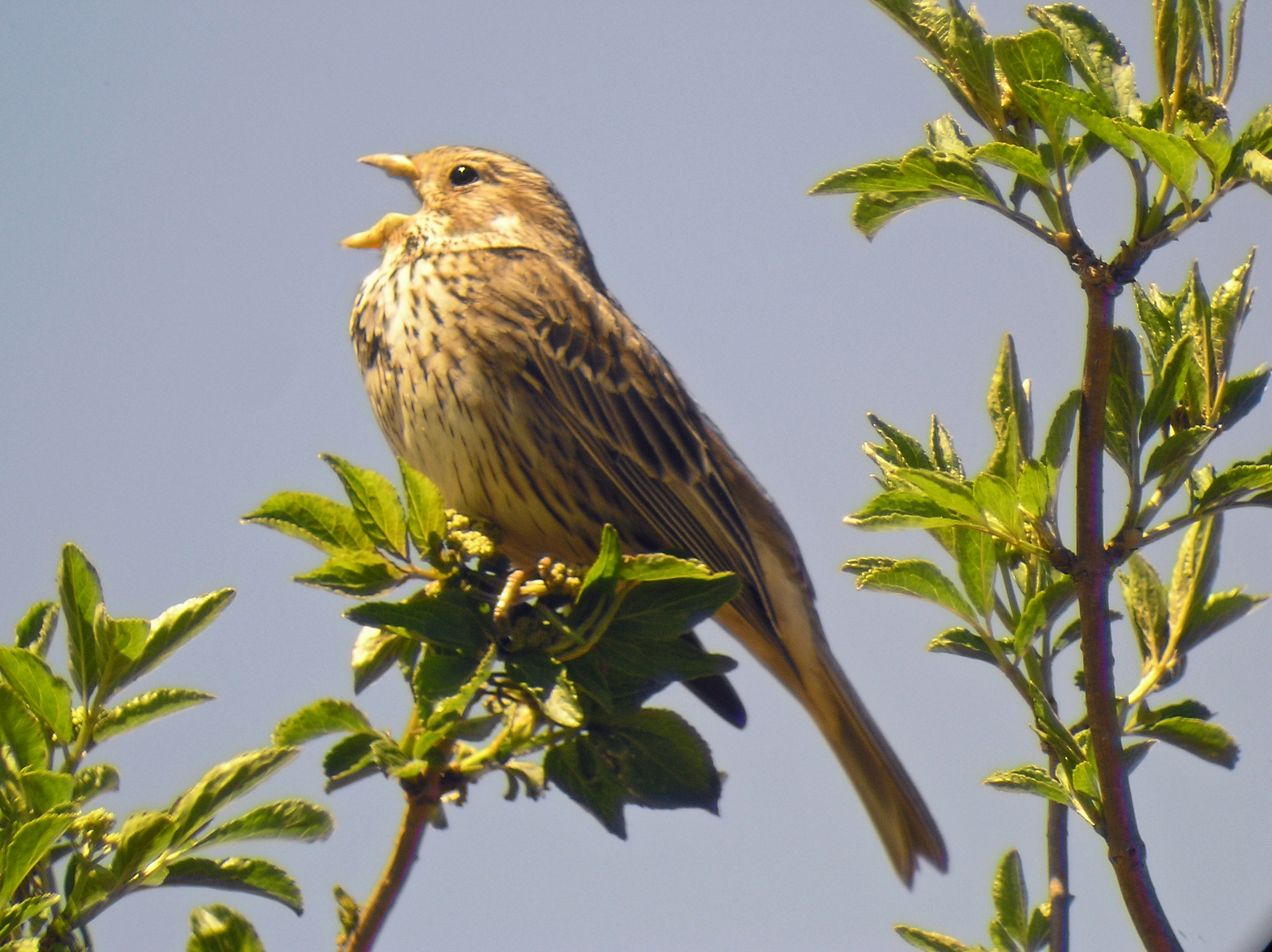 Emberiza calandra (Corn Bunting), singing male (Salles-la-Souce, Aveyron, France) ; digiscoping